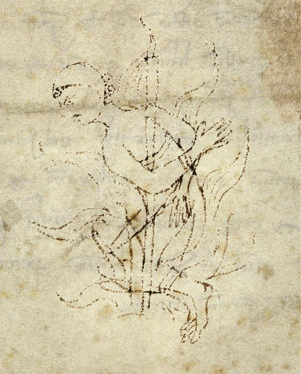 Cathars